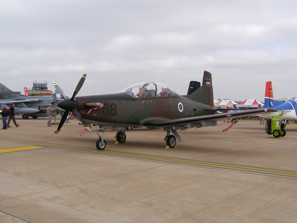 Slovenian Armed Forces Pilatus PC-9M Hudournik (Swift) at Royal International Air Tattoo, Fairford, England in 2006